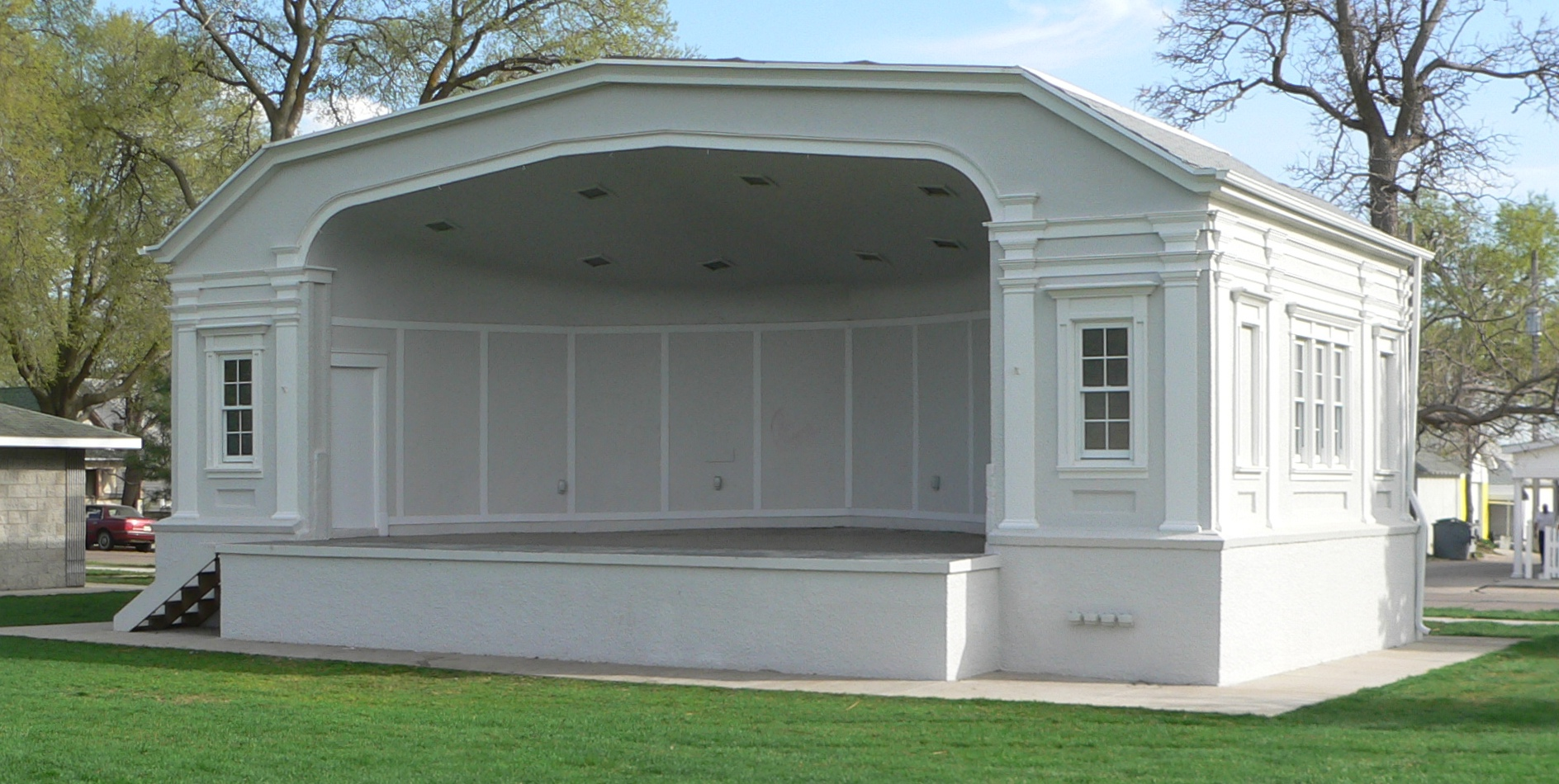 Bandshell in Norris Park in McCook, Nebraska; seen from the northwest.